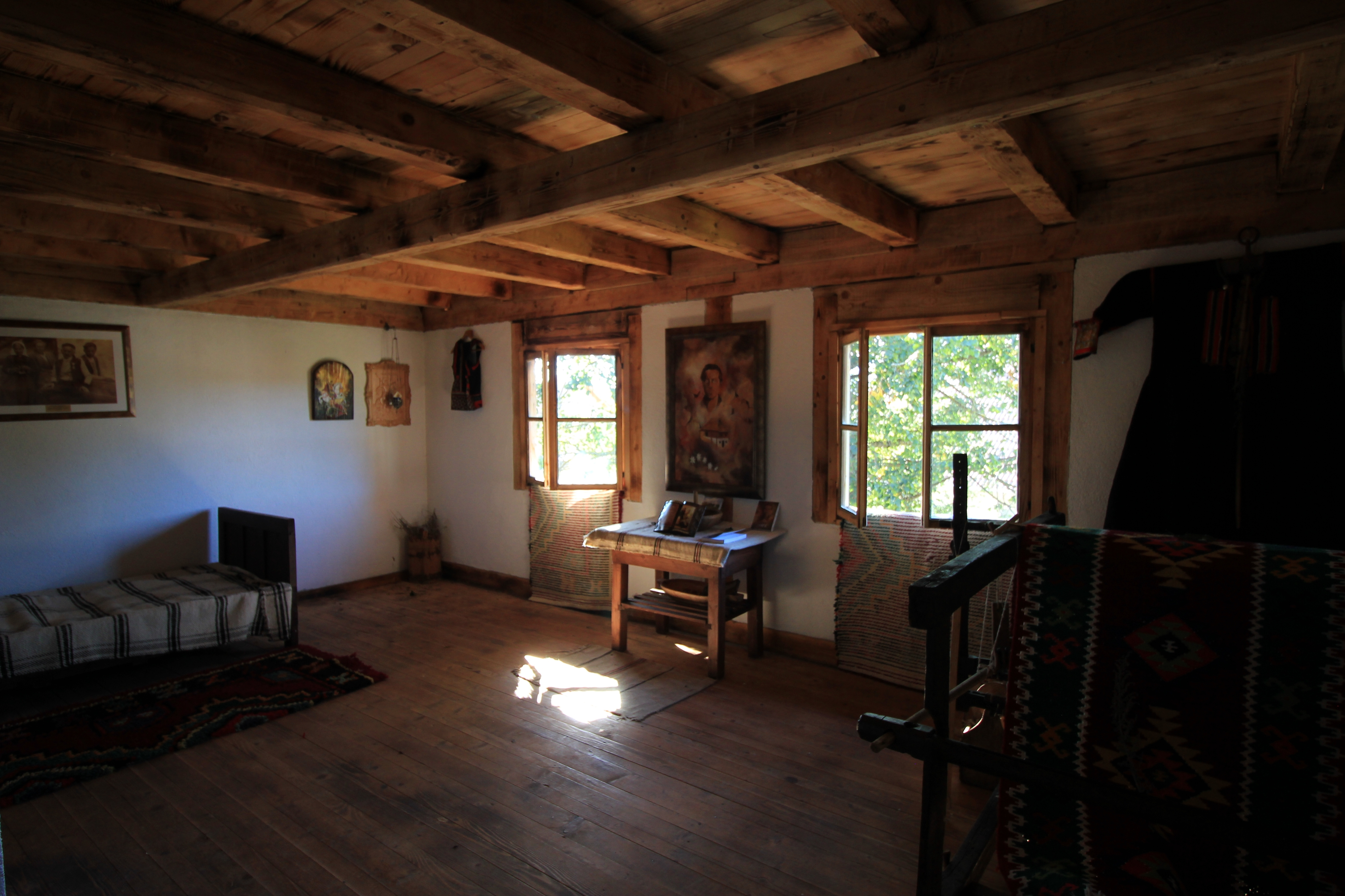 Birthplace of Gavrilo Princip in Obljaj, Bosnia.